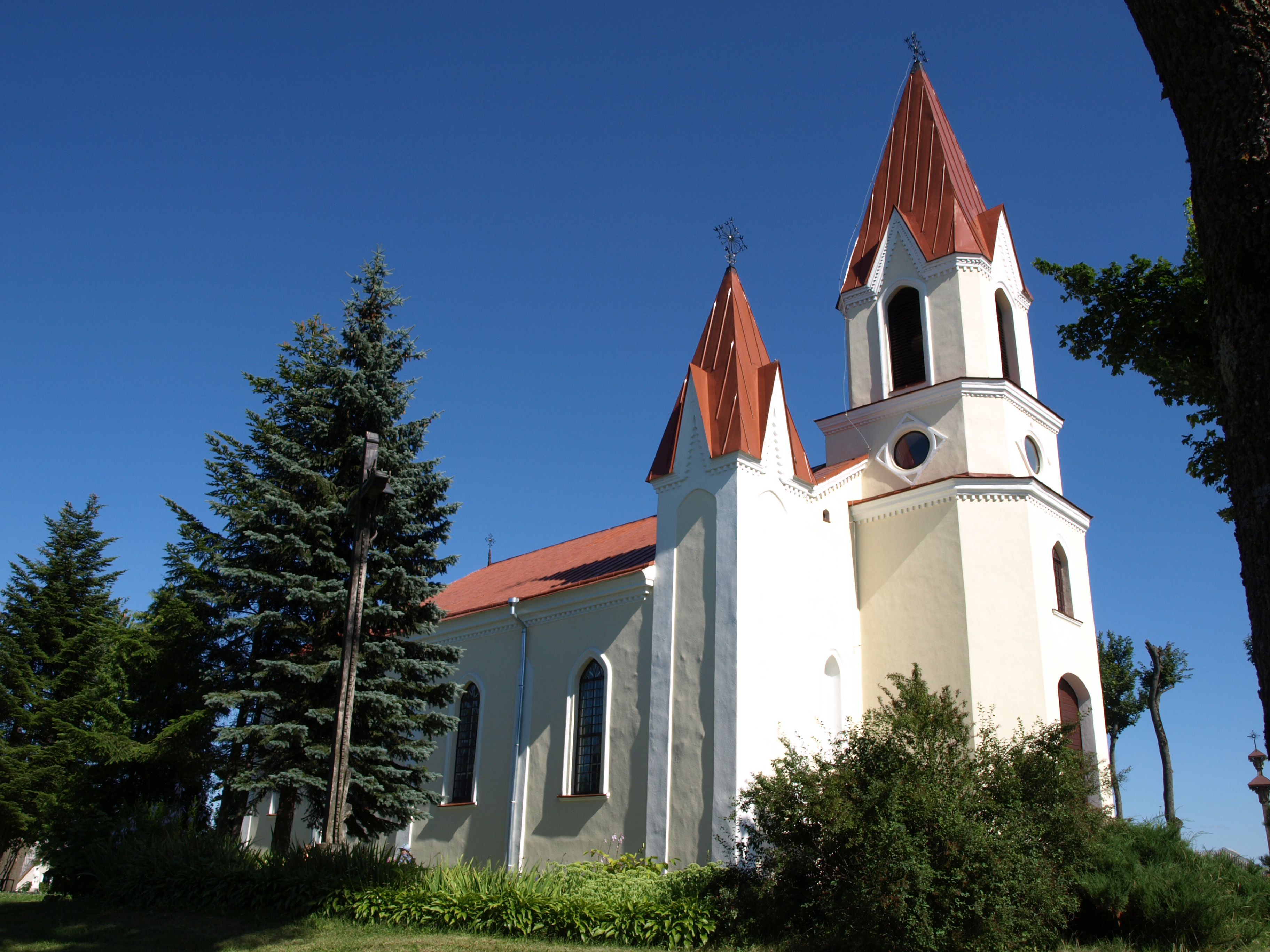 Maišiagala church, Vilnius district, Lithuania